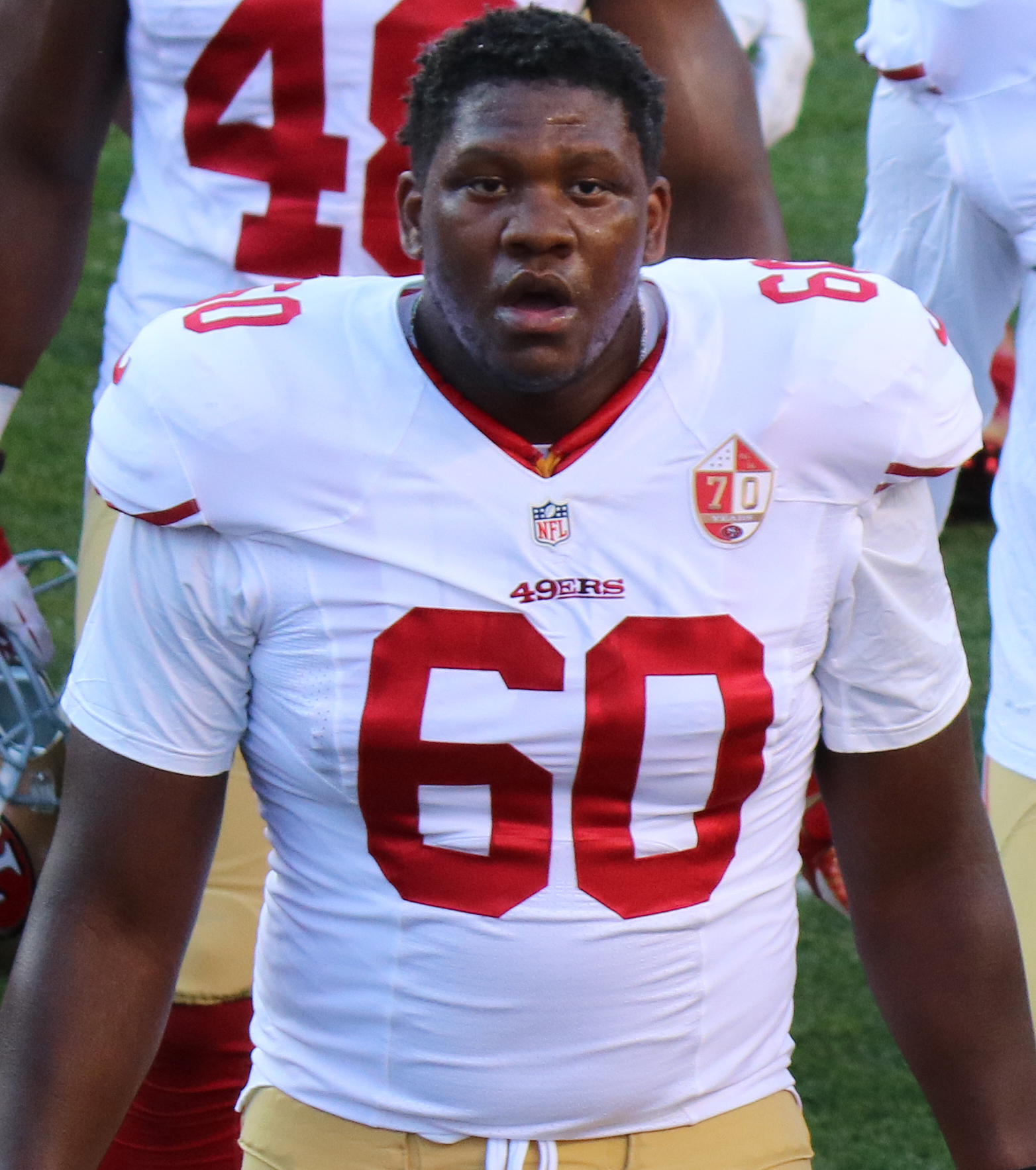 B. J. McBryde, a player on the National Football League.